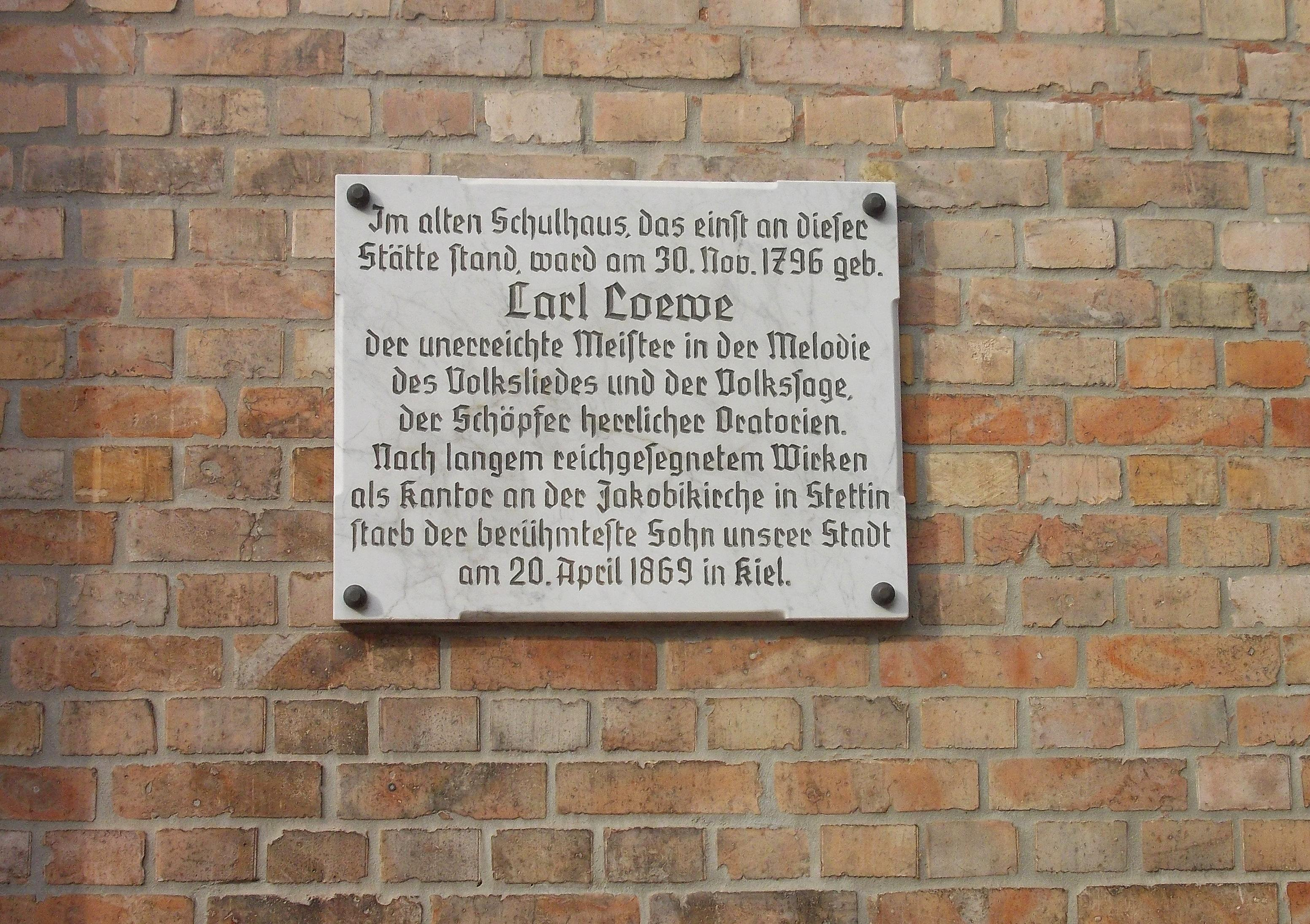 Plaque at the successor building to the old school in Löbejün (Wettin-Löbejün, district: Saalekreis, Saxony-Anhalt) where the composer Carl Loewe was born